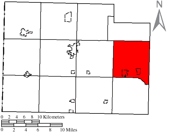 Made by the US Census and modified by myself